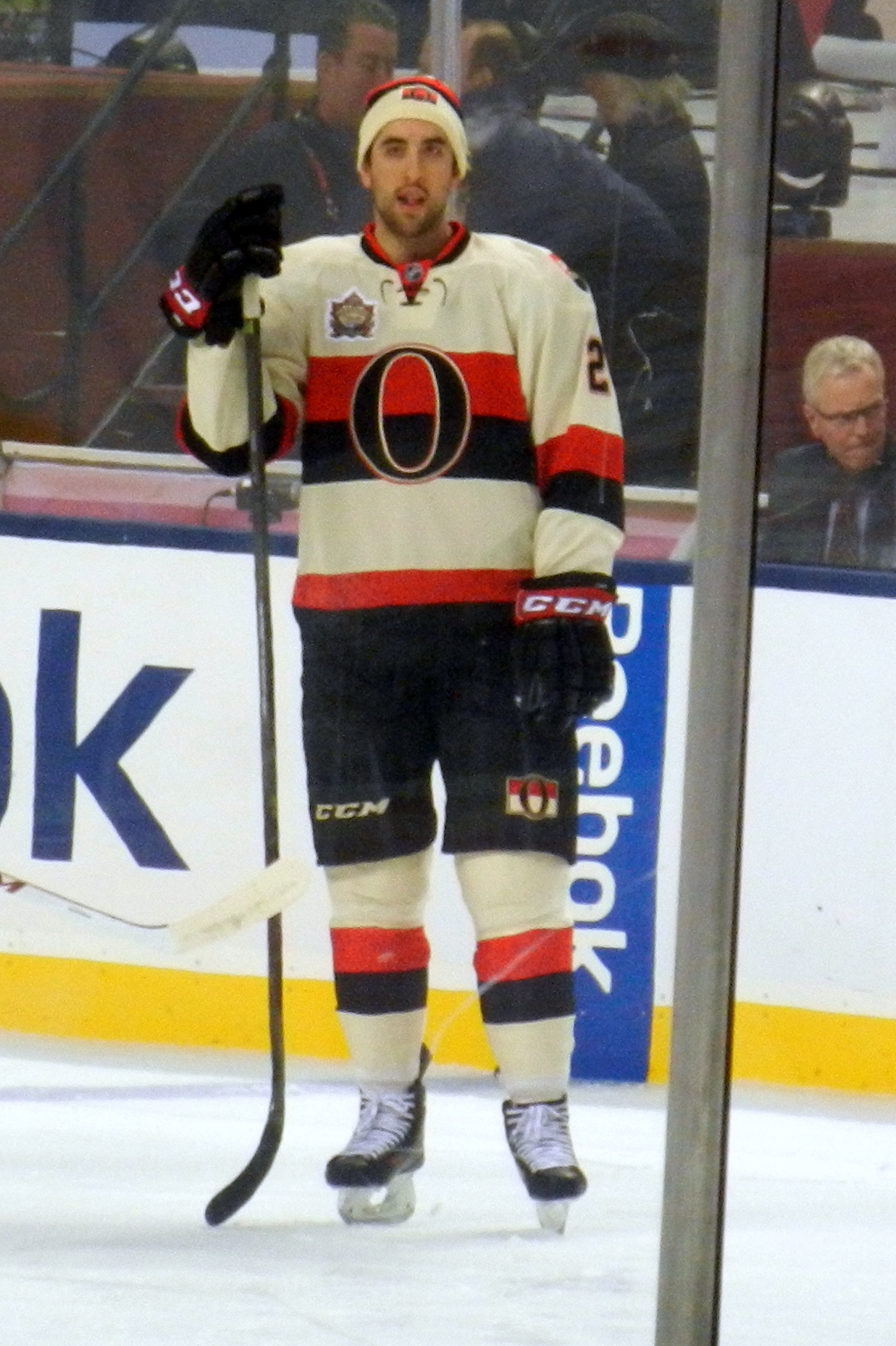 Jared Cowen during pregame warmups of the 2014 Heritage Classic